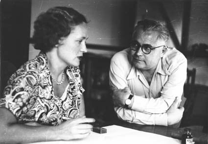 Vladimir Petrov and Evdokia Petrov inside the safe house in which they were held following their defection to Australia.